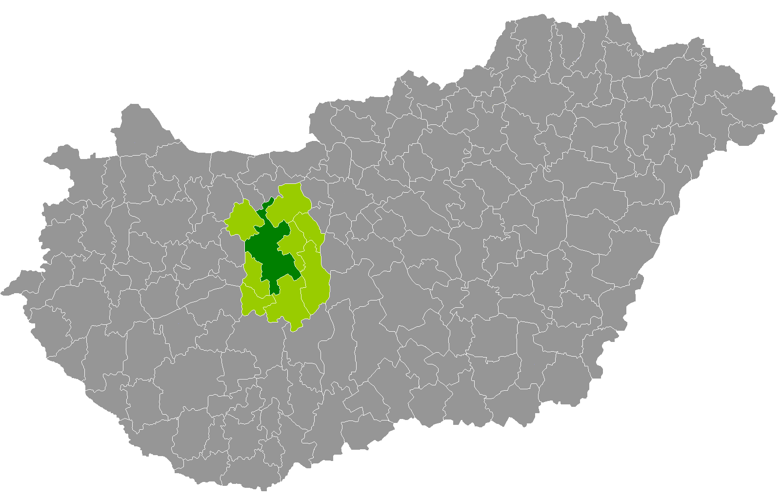 Location of Székesfehérvár District, Fejér, Hungary